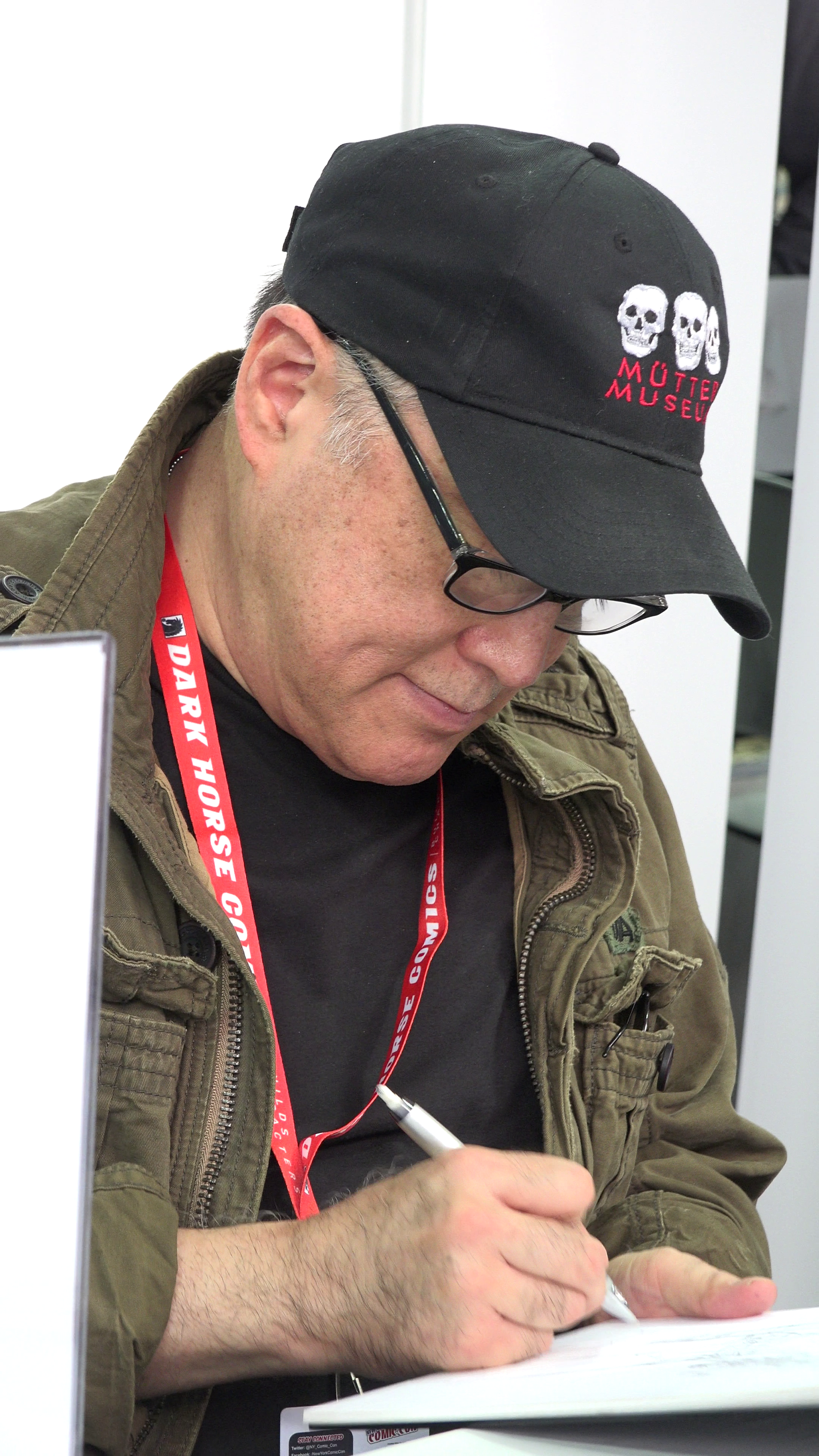 Larry Hama in the Artists' Corner at New York Comic Con 2015